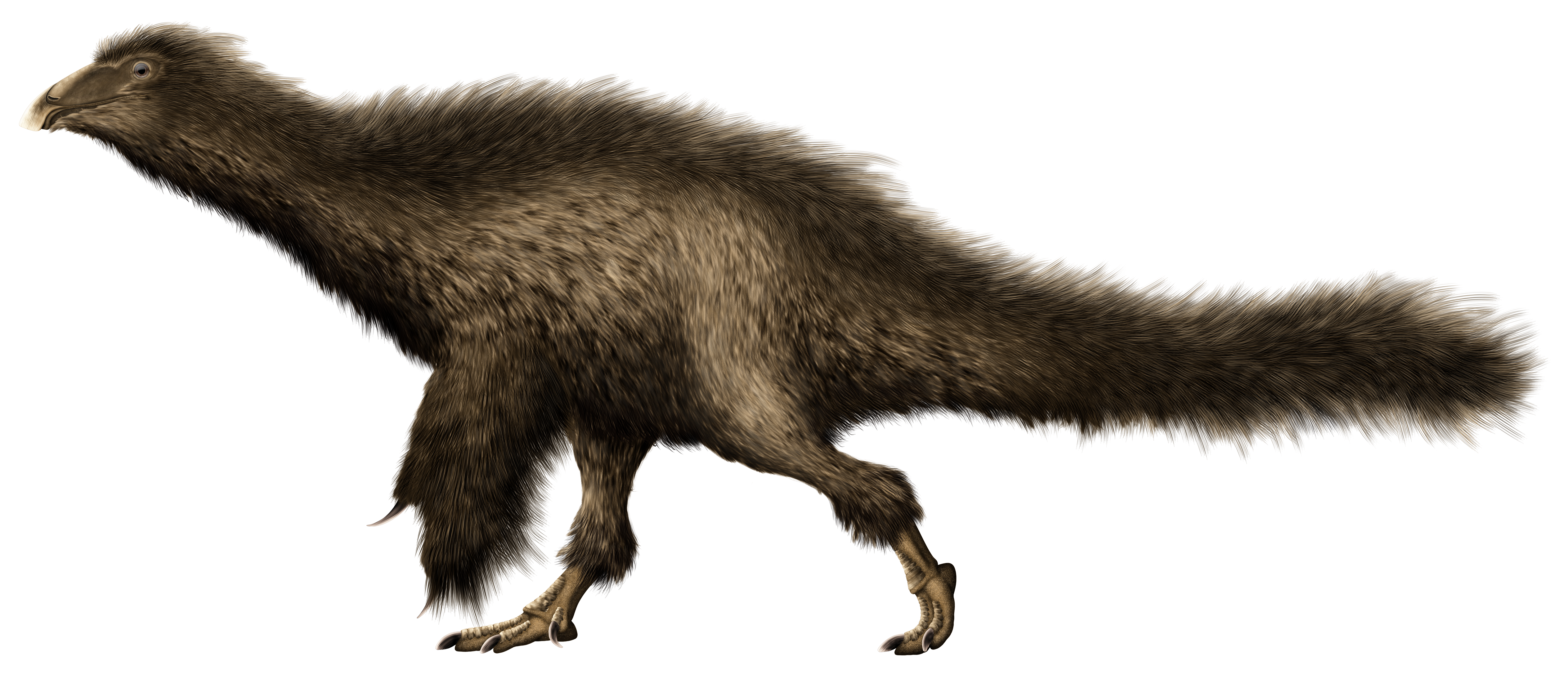 Life restoration of an individual of the primitive Asian therizinosaurs Beipiaosaurus inexpectus. At least three specimens (IVPP V11559, STM 31-1 and BMNHC PH000911) preserve EBBFs (elongated broad filamentous feathers) which are primitive, filamentous feathers. BMNHC PH000911 was inferred to had a brownish colouration.